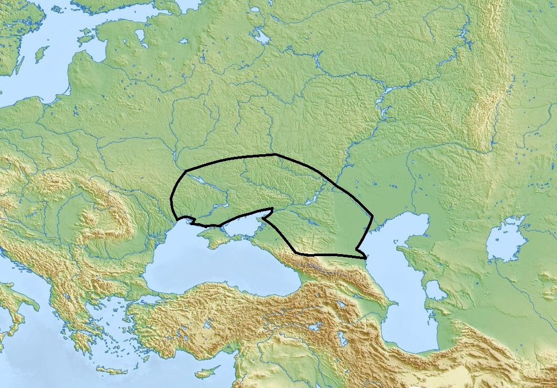 Map of the Catacomb culture, based on a map printed at page 93 in Encyclopedia of Indo-European Culture, which was edited by J. P. Mallory and Douglas Q. Adams, and published by Taylor & Francis in 1997.